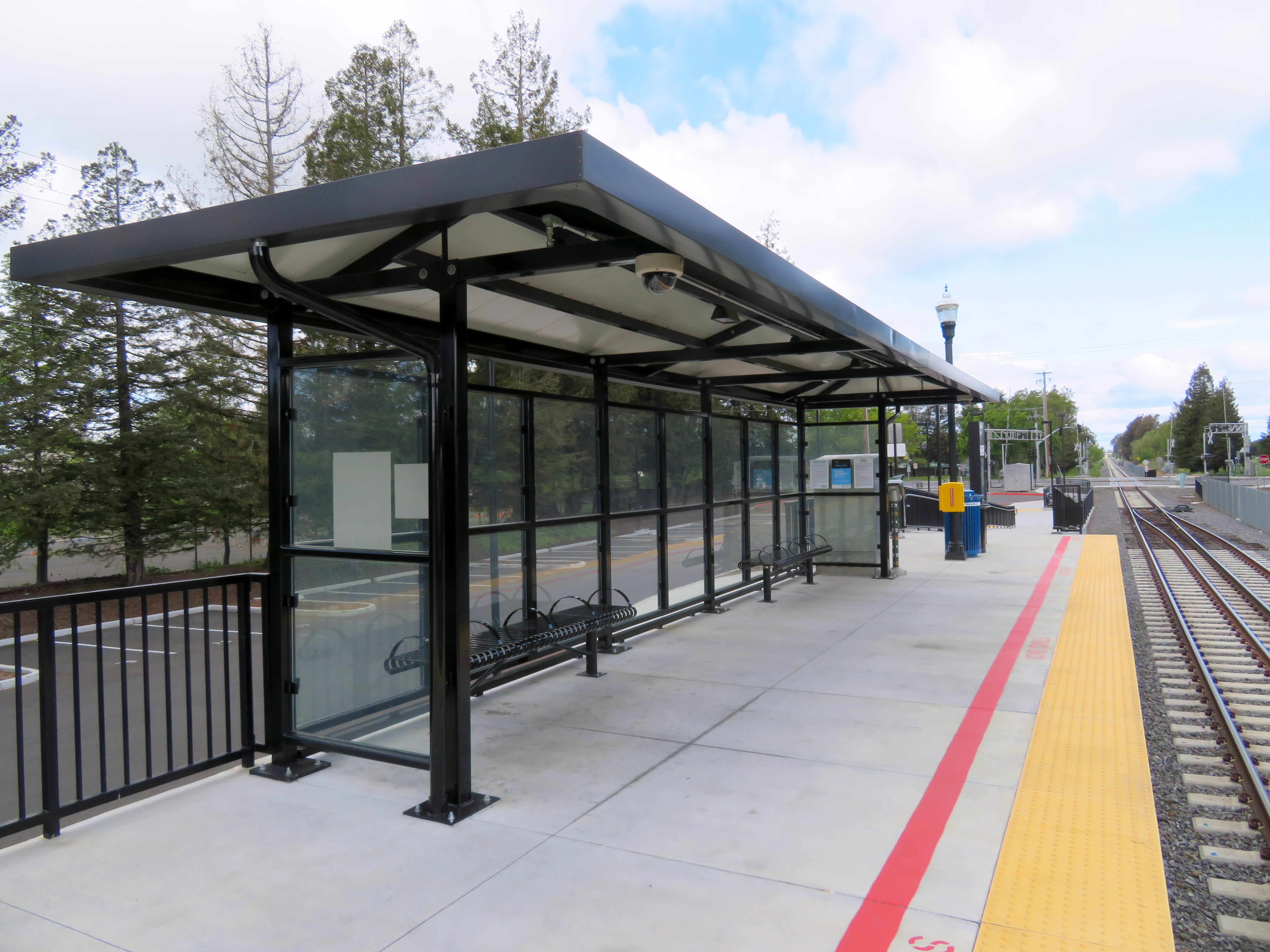 Rohnert Park station in April 2018